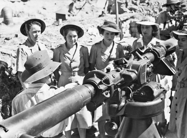 AWM caption: Buckland, WA. 1942-11-24. Members of the Australian Women's Army Service receiving instruction in advanced training of instrument operators. TThey are attached to anti-aircraft group, Fremantle, and are seen being instructed in the use of a range and height finder by Sergeant Raymond of 419 Australian heavy anti-aircraft gun station. Pupils are, left to right- gunners Barber, Fraser, Kinghorn and Gallimore.